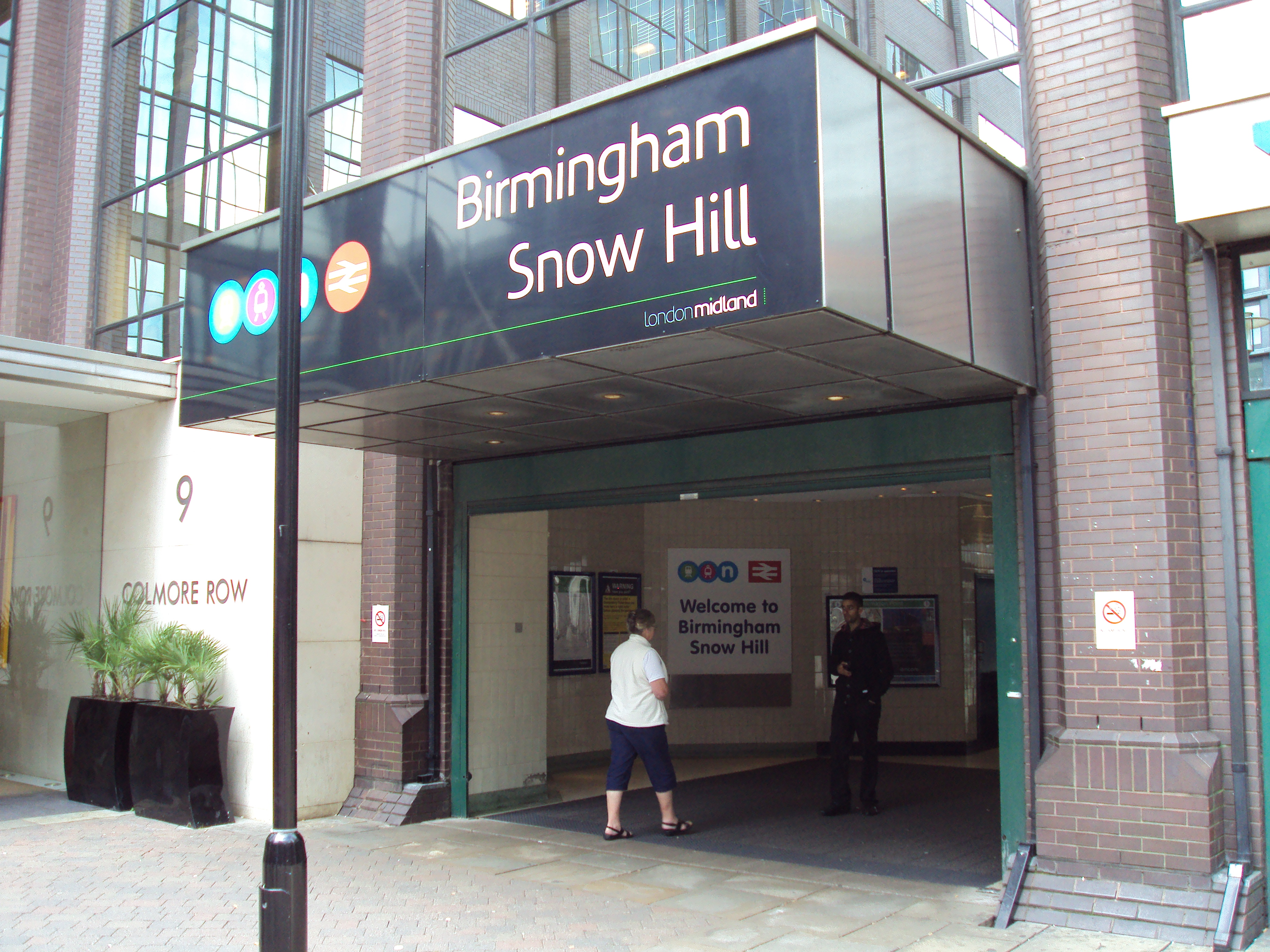 Entrance to Birmingham Snow Hill railway station on Colmore Row, Birmingham, England.